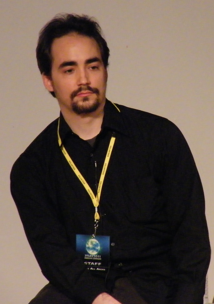 A photo taken of Peter Joseph as he answers questions at the Q&A session after the Zeitgeist: Moving Forward screening the day before Zday 2011.